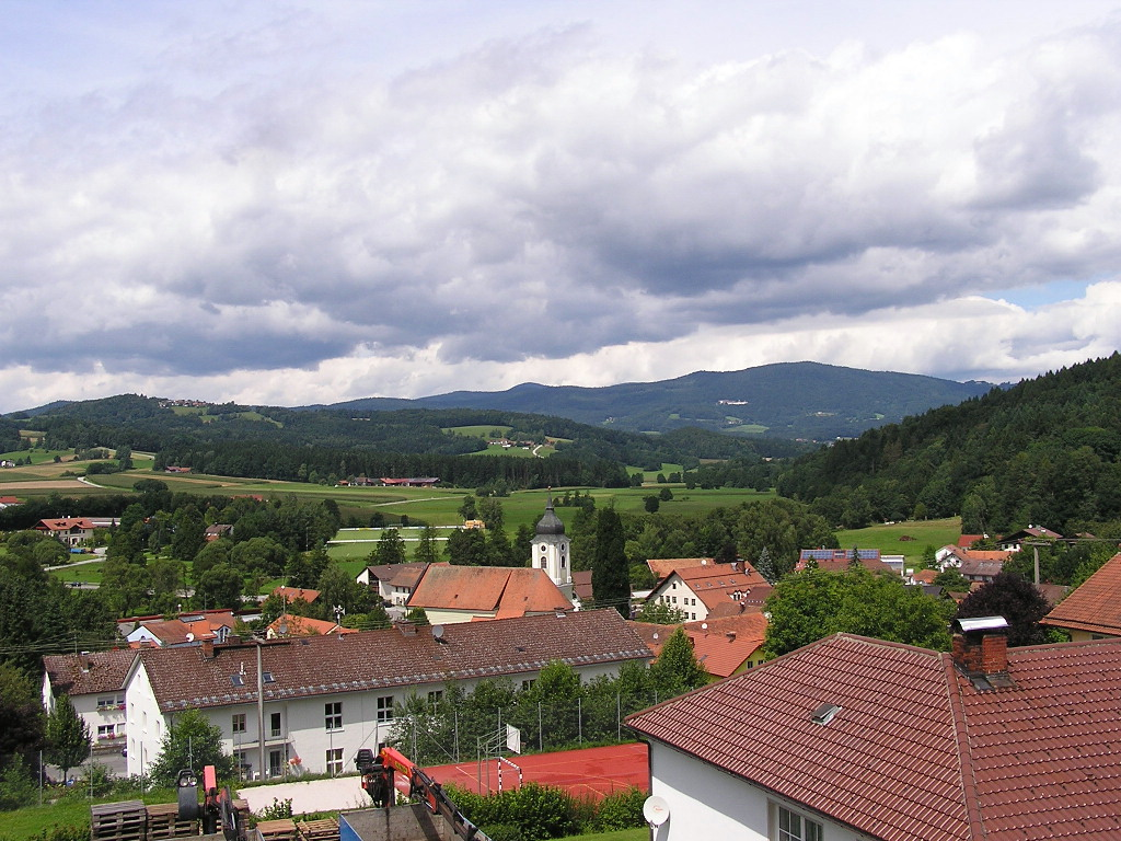 View over Auerbach in Bavaria, Germany. The Mountain in the background is called “Rusel”.